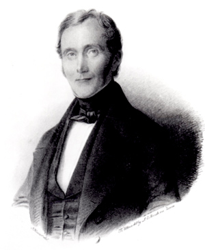 The portrait of German musician Johann Hermann Kufferath (1797—1864)